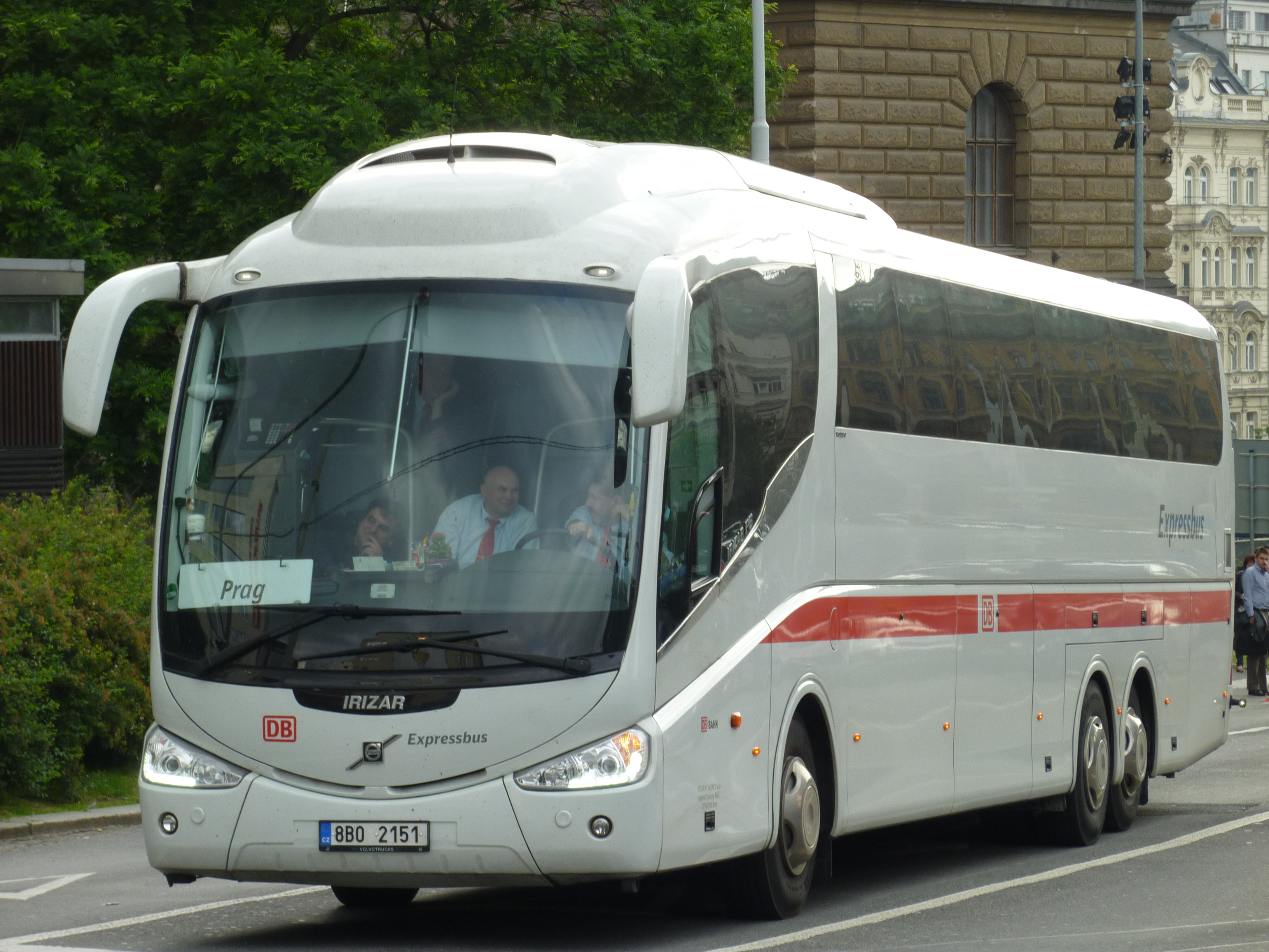 Prague, Czech Republic. A bus of Student Agency as the Expressbus DB.